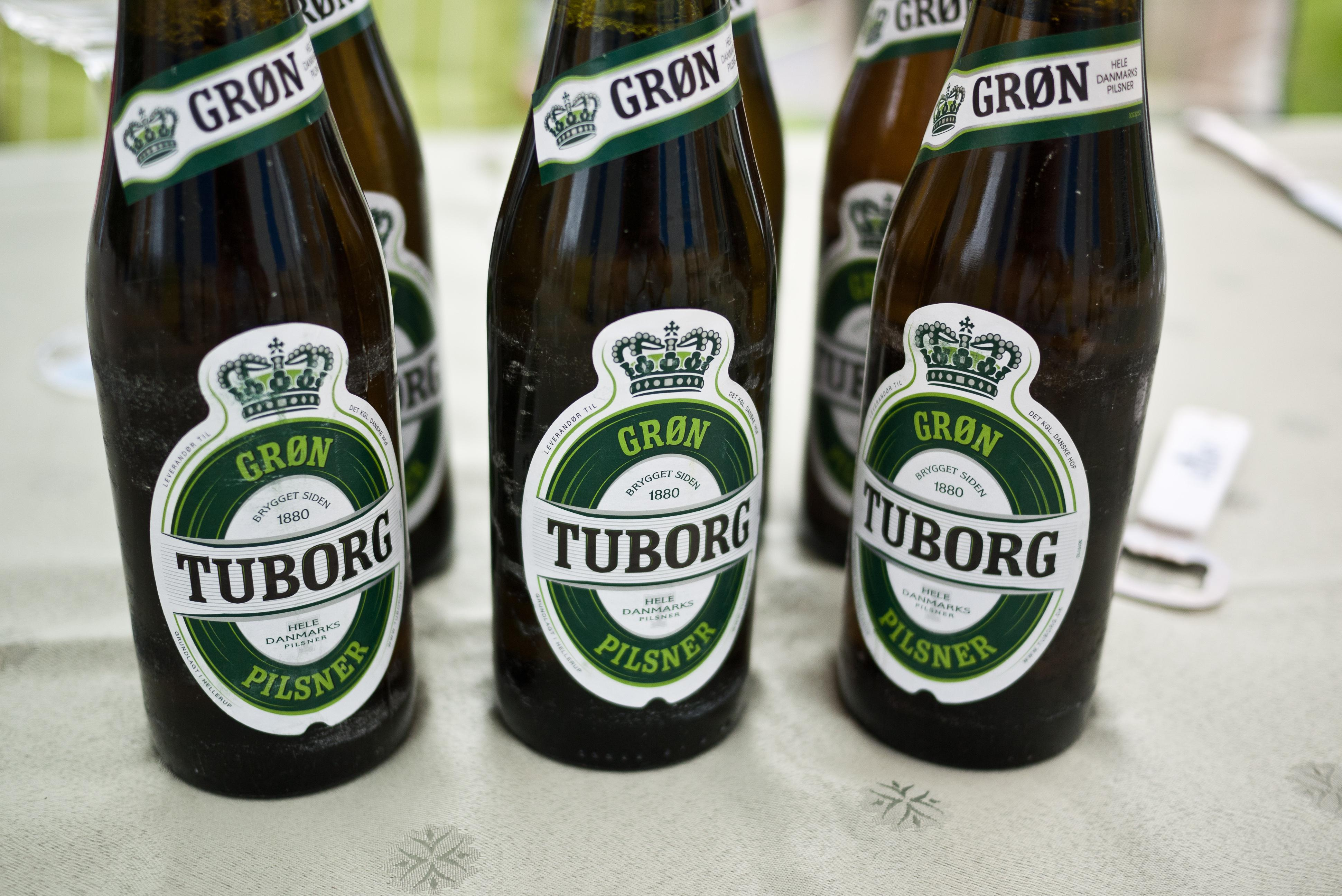 Danish beer Grøn Tuborg in bottles.